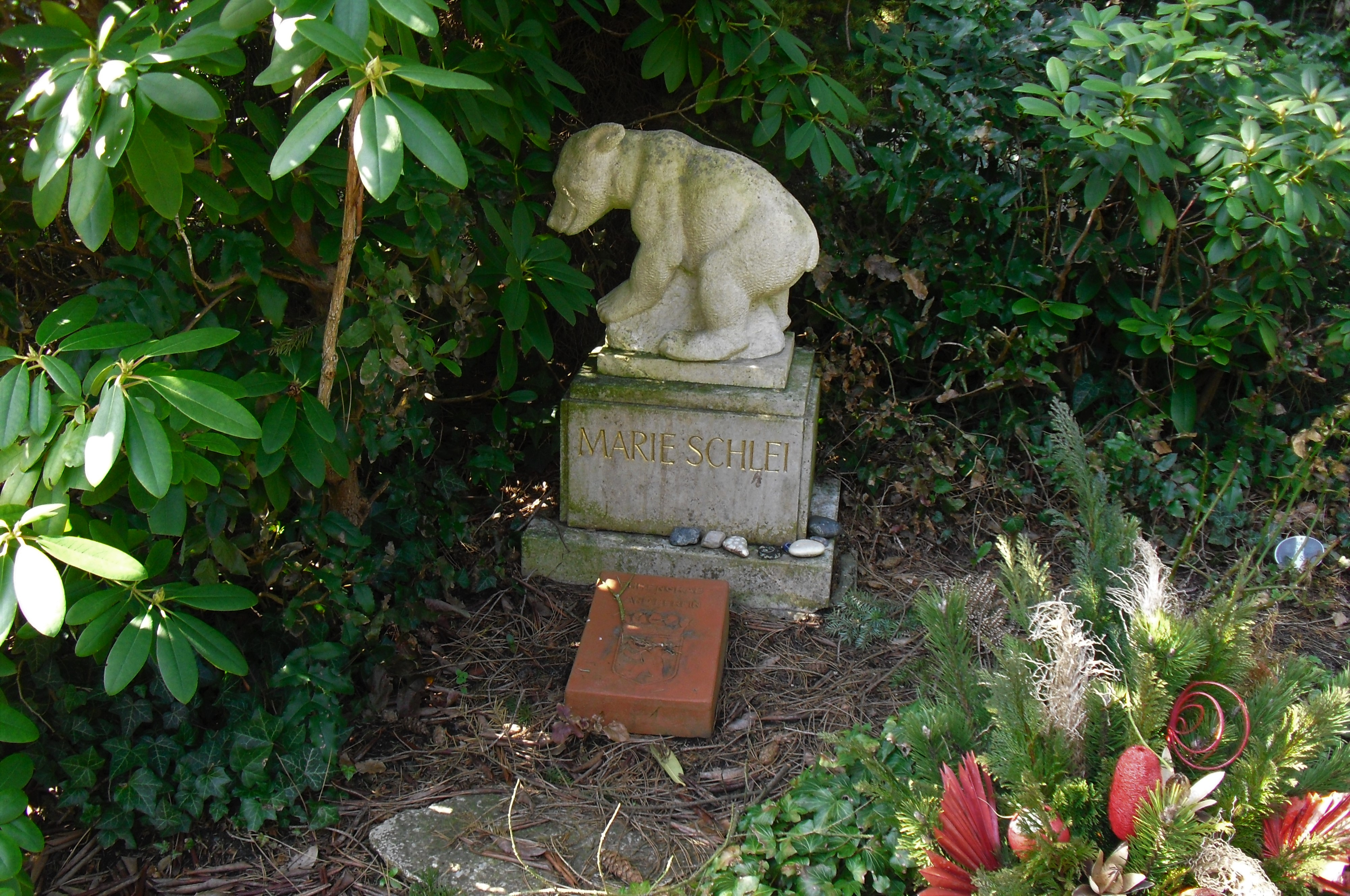 Honor grave of German politician Marie Schlei in Martin-Luther-Kirchhof (Berlin-Tegel)